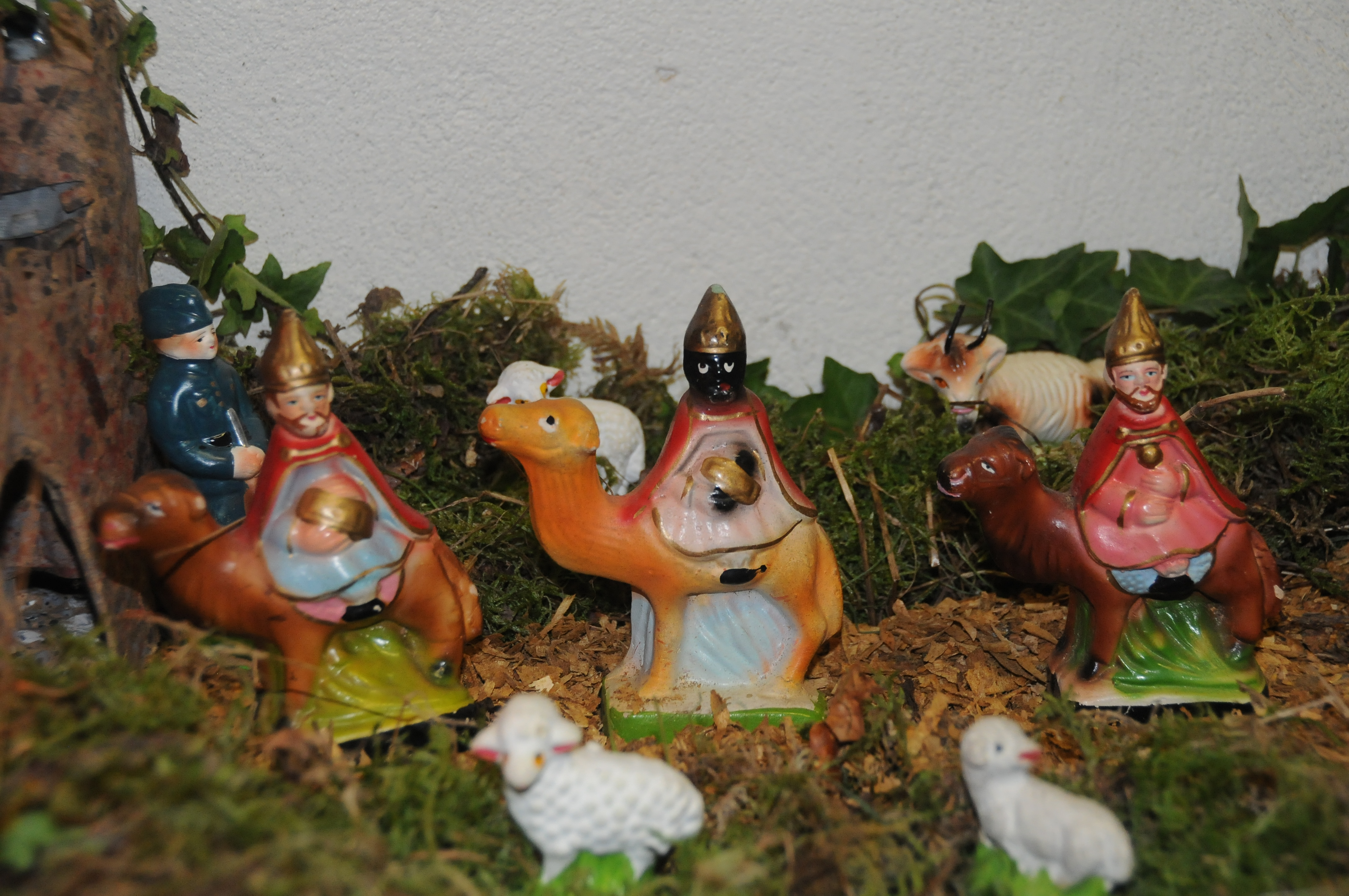 Traditional Nativity scene in Portugal